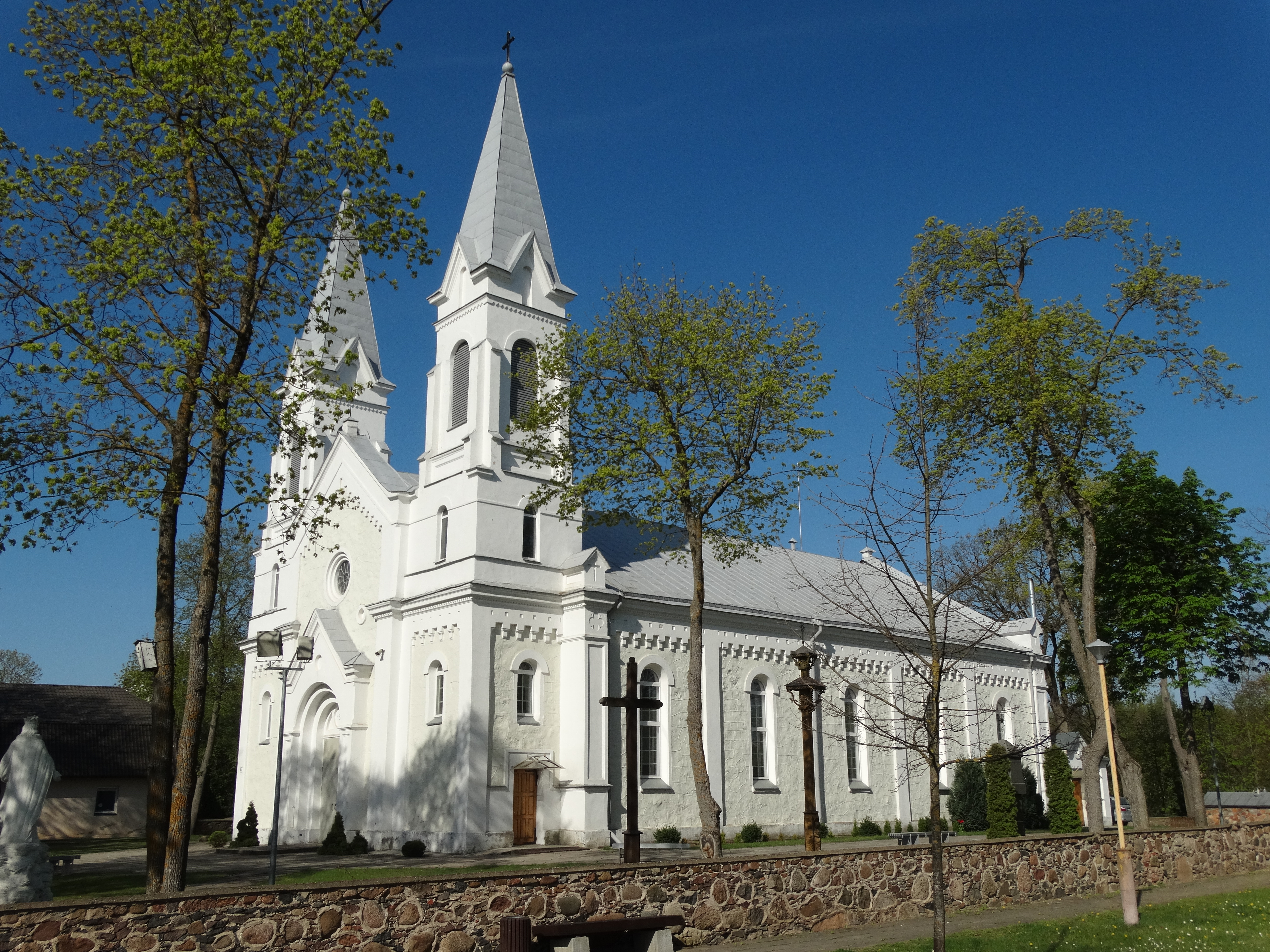 Church of St. John the Baptist, Pakruojis, Lithuania